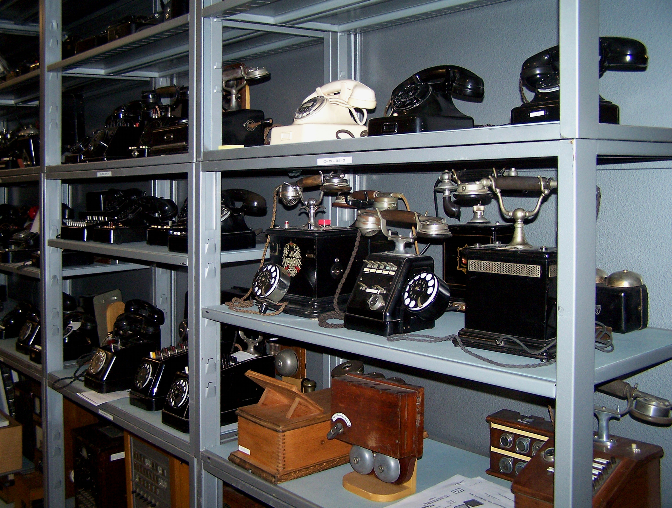 phone collection in the depot of the Museum for communication Frankfurt am Main in Heusenstamm